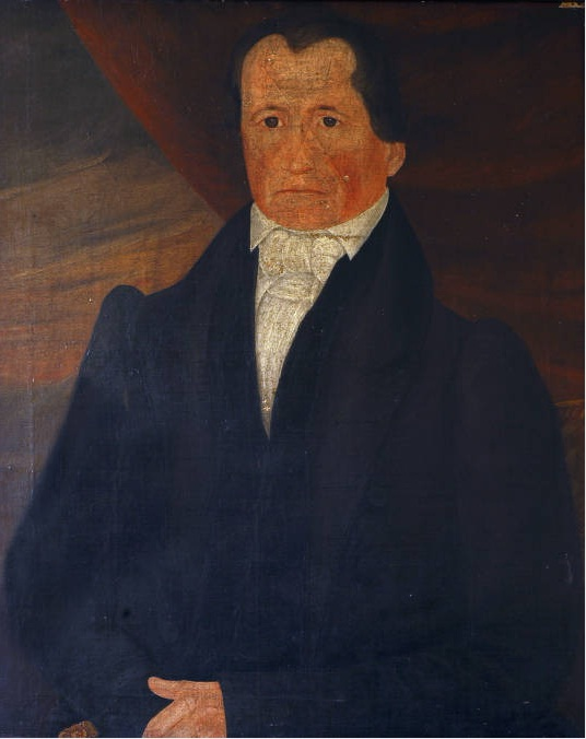 Ralph Osborn was the Ohio State Auditor 1815-1833. This oil portrait on canvas is property of the Firelands Historical Society. Dimensions are 29” by 35” (73.66 X 88.9 cm). It was painted about 1815.